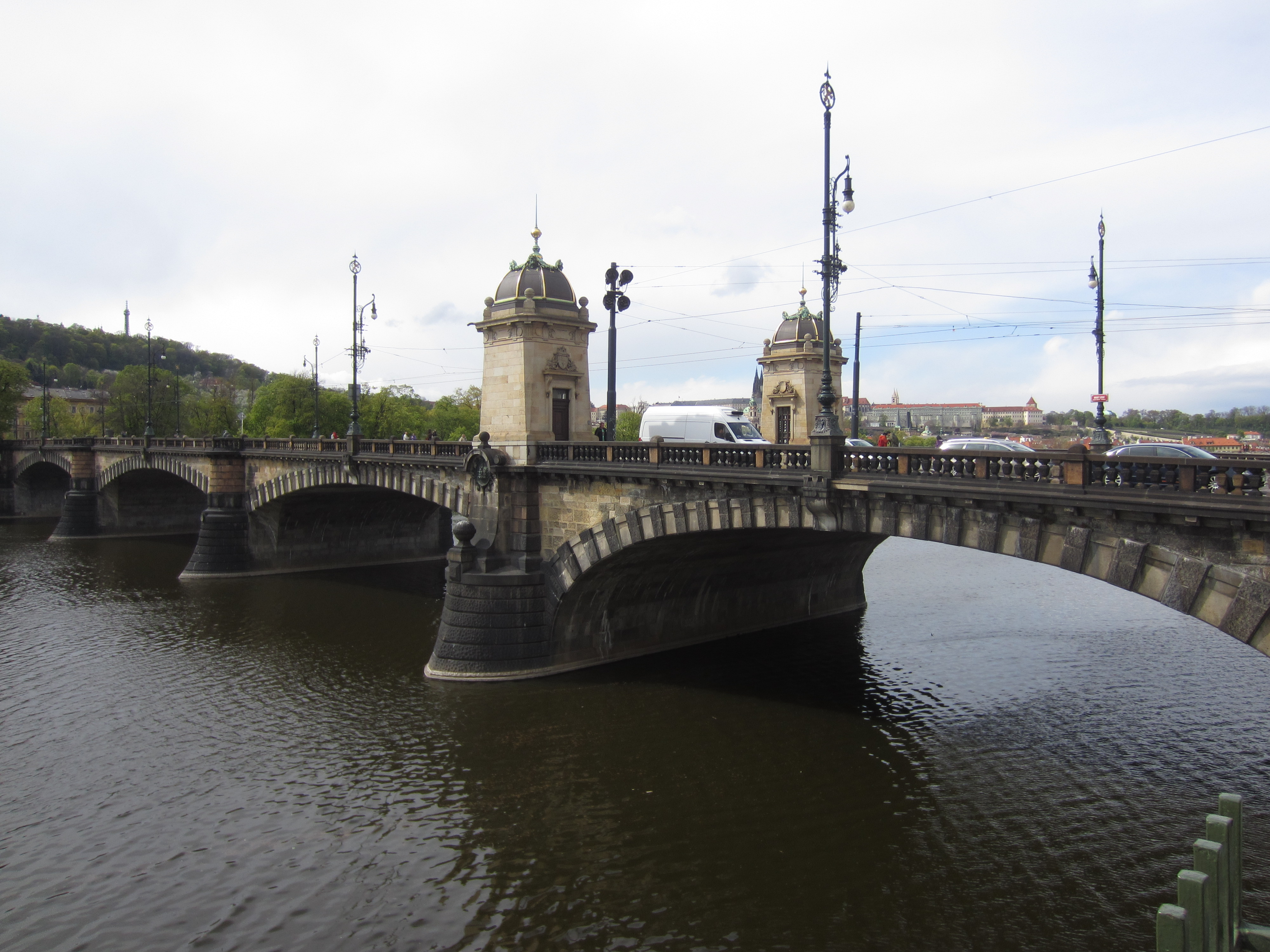 Prague, Czech Republic, April 2016